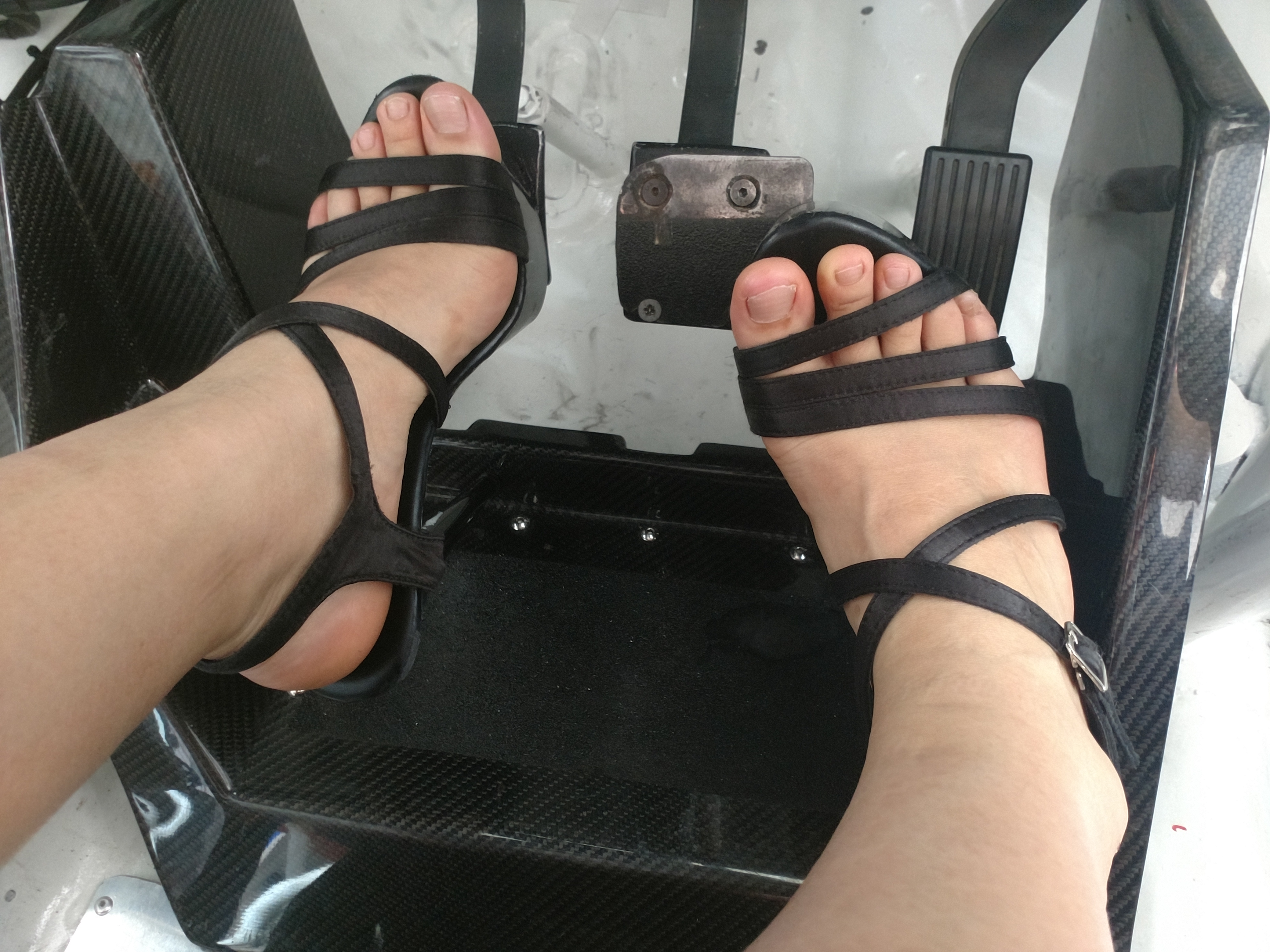 a girl doing heel & toe downshift footwork